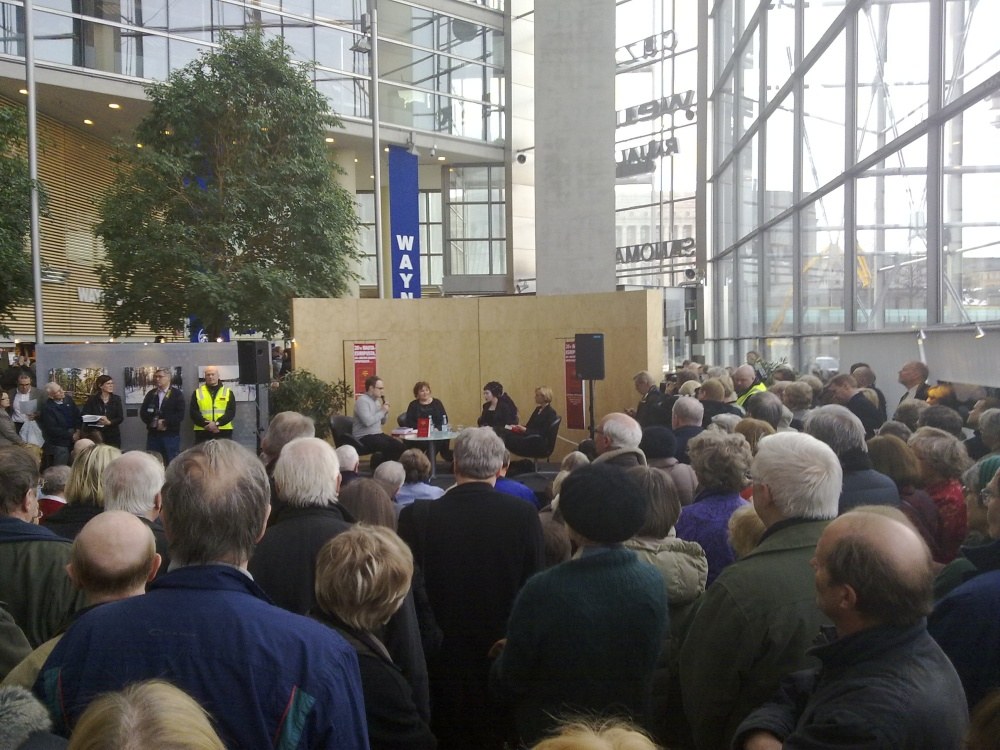 Seminary by Estonian embassy in Helsinki 23 March 2009 in Sanomatalo. The book is "Kaiken takana oli pelko" (The fear is behind everything) by Imbi Paju and Sofi Oksanen.